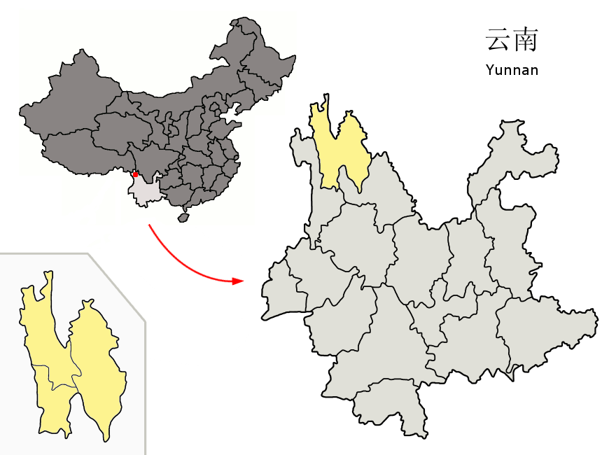 Location of Dêqên Prefecture (yellow) within Yunnan province of China Map drawn in september 2007 using various sources, mainly : Yunnan province administrative regions GIS data: 1:1M, County level, 1990 Yunnan Counties map from